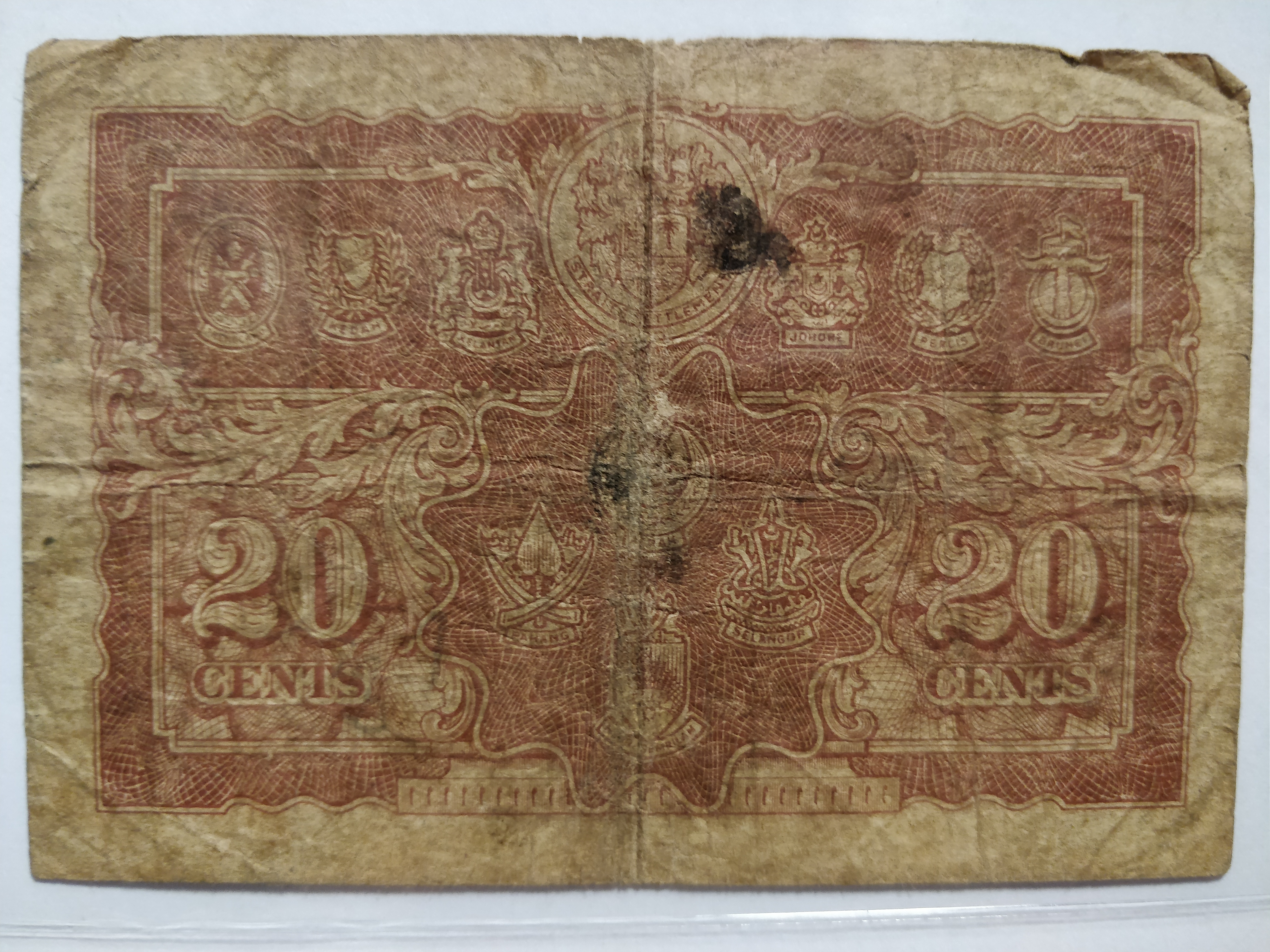 Malayan Dollar Note, 20 cent, Reverse 1st July 1941